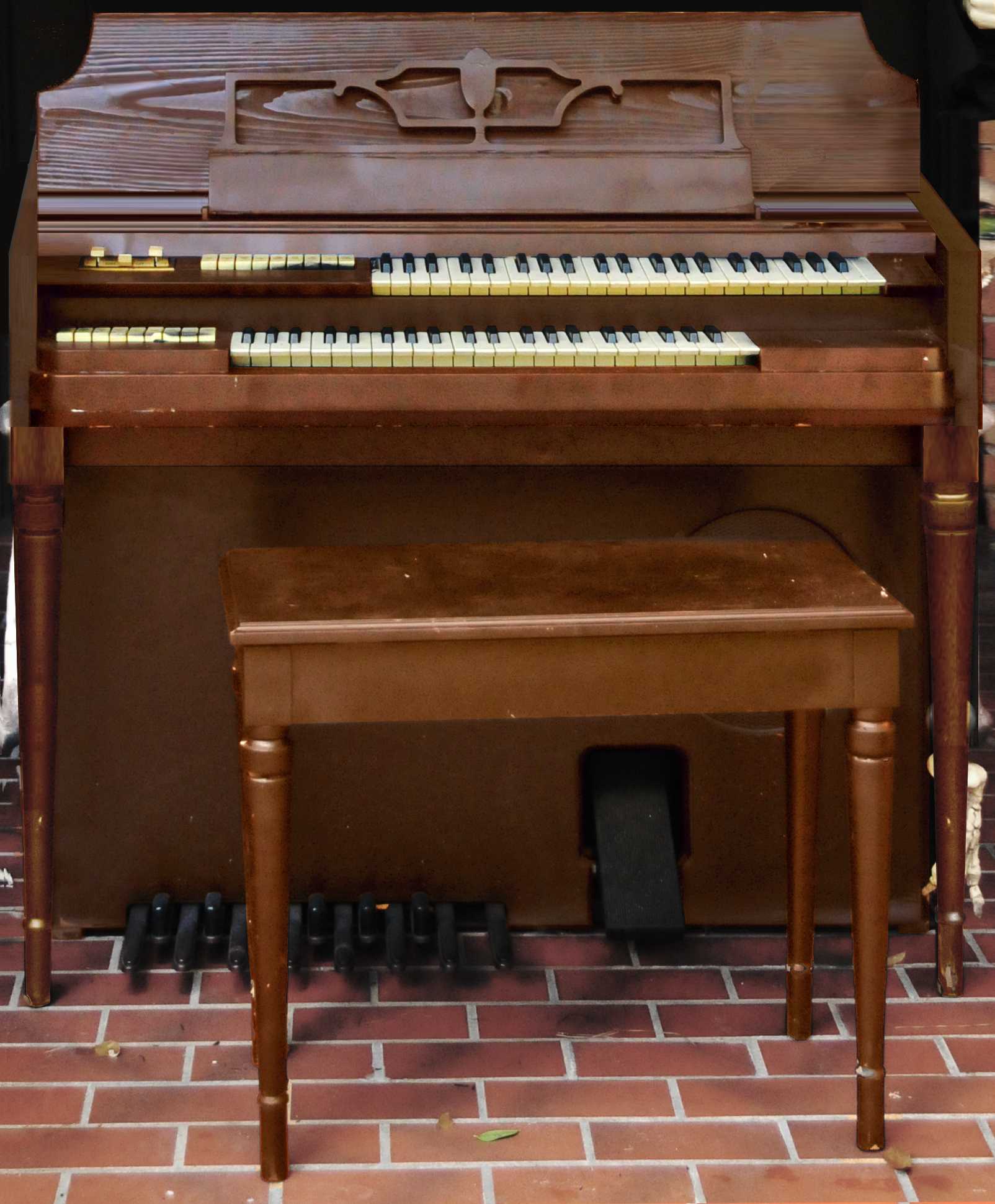 Wurlitzer Model 44 (1953/54-1964?)[1] Electrostatic Reed Organ A spinet with nine stops on each manual and three lever controls for pedal volume and vibrato, also pedal had a built-in sustain. References ↑ Frank Pugno. Wurlitzer Organs. .